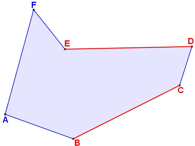 Polygon with highlighted sides